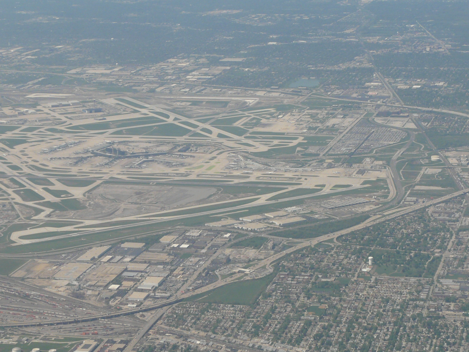 Chicago O'Hare International Airport seen from a commercial flight over Chicago.